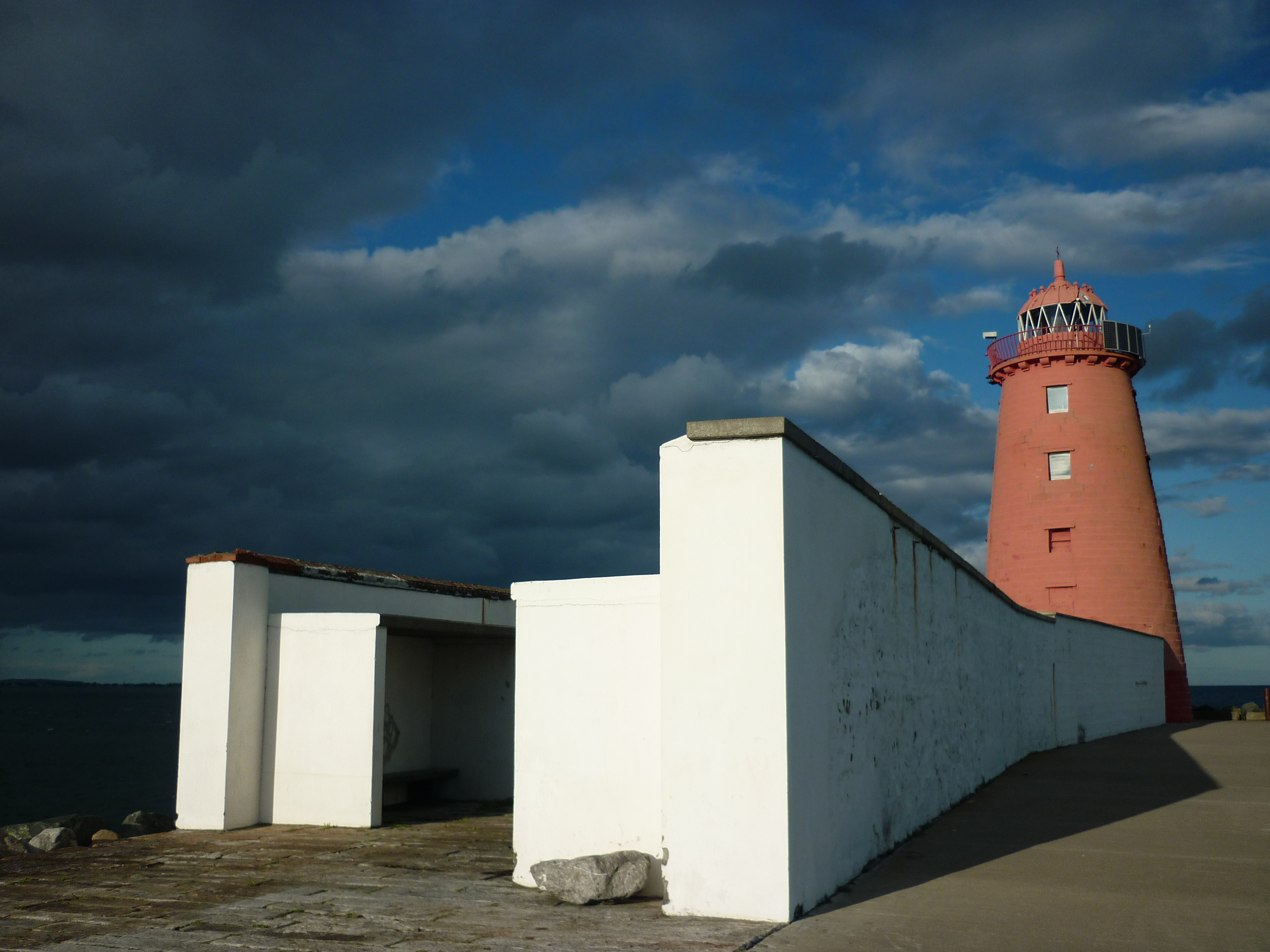 The Poolbeg Lighthouse at the end of the Great South Wall, in Dublin 4.